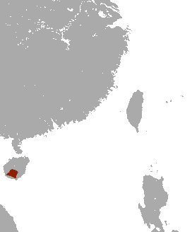 Hainan Gymnure (Neonylomys hainanensis) range